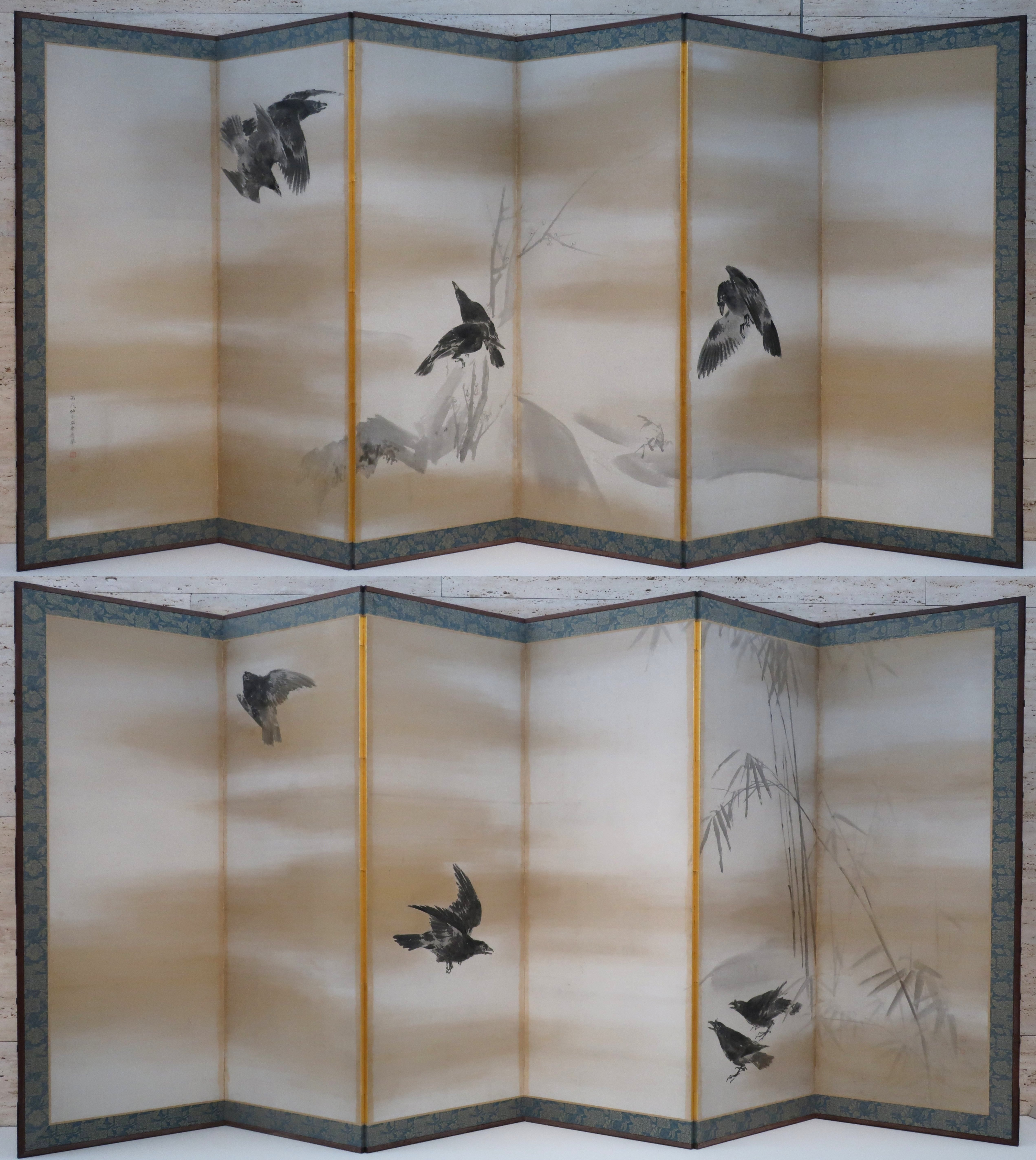 Crows, 1766, Japan, Edo period, Pair of six-fold screens; ink and gold on paper by Maruyama Okyo